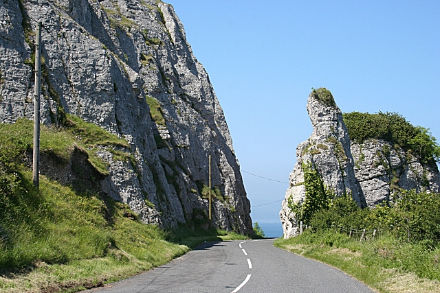 Road Cutting Before the new A2 along the shore was built, this winding road was the main road along the Antrim coast. The views are splendid, but it must have been very tedious for drivers if it was busy.